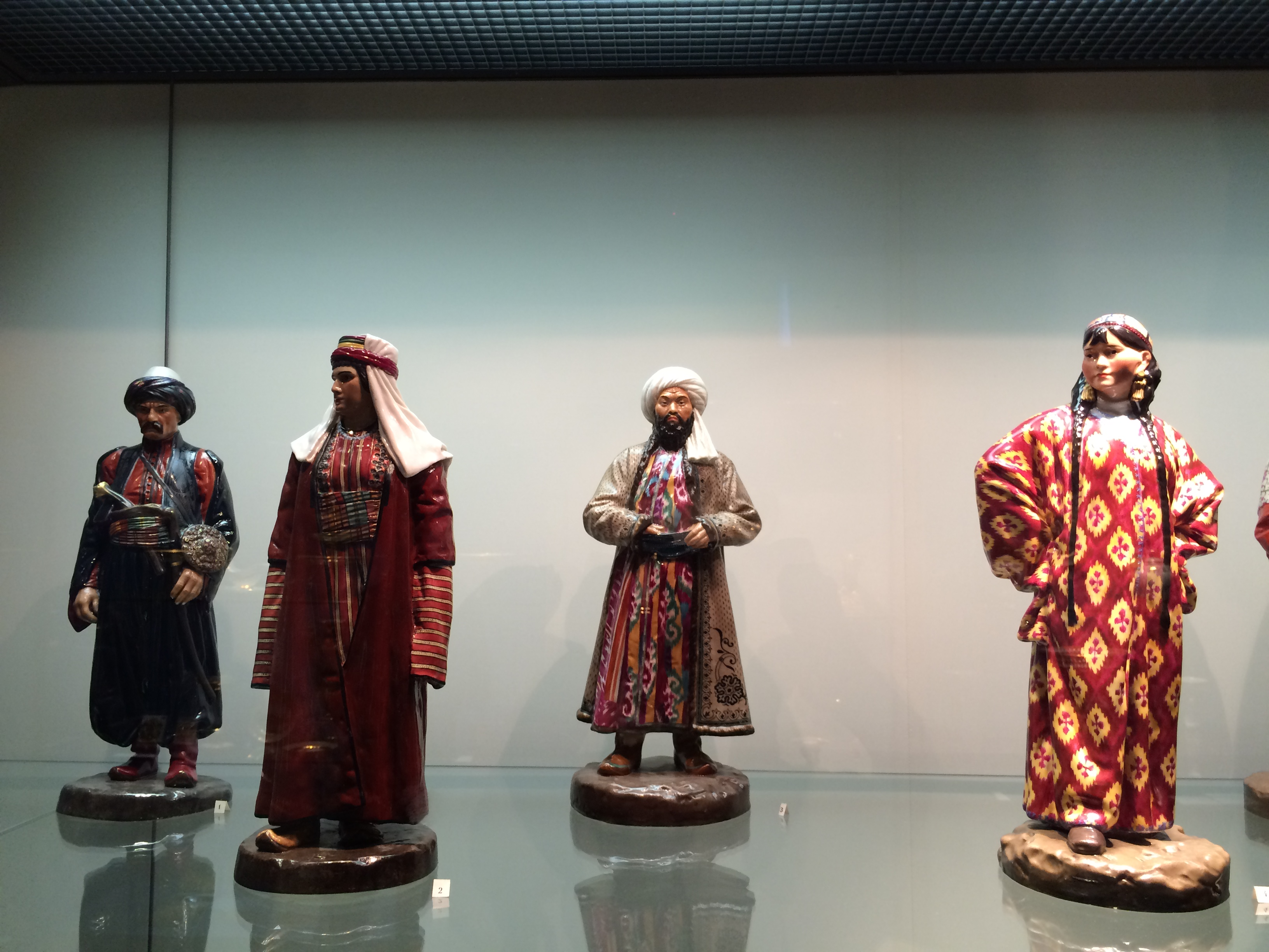 St.Petersburg. The Museum of the Imperial Porcelain Factory. Sculptures from the series "Peoples of Russia." "Great Russian Ryazan Governorate" (center). Models by P.P. Kamensky (1858-1922). Imperial Porcelain Factory, Russia. 1907-1917 gg. Porcelain, polychrome overglaze painting, gilding, silvering, platinum lustre, tooled.